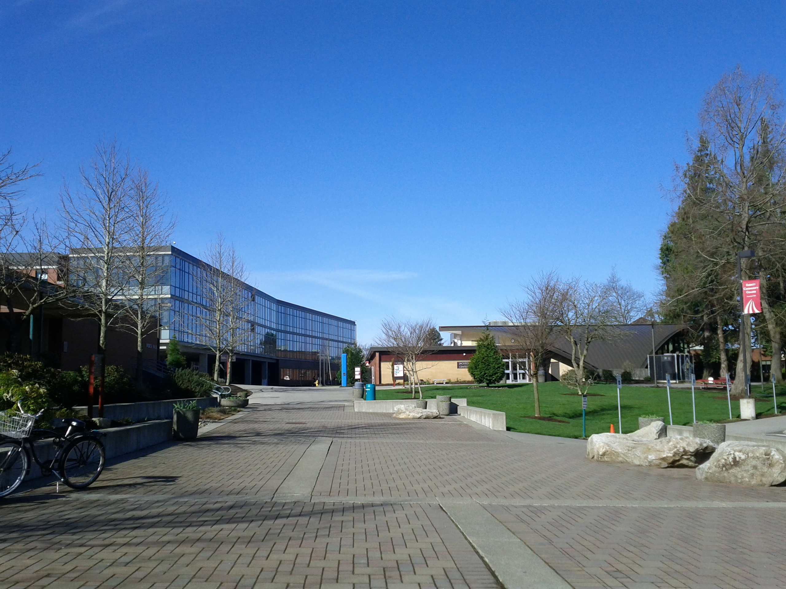 Looking west towards Gray Wolf Hall (left) and the Henry M. Jackson Conference Center (right) on the main campus of Everett Community College